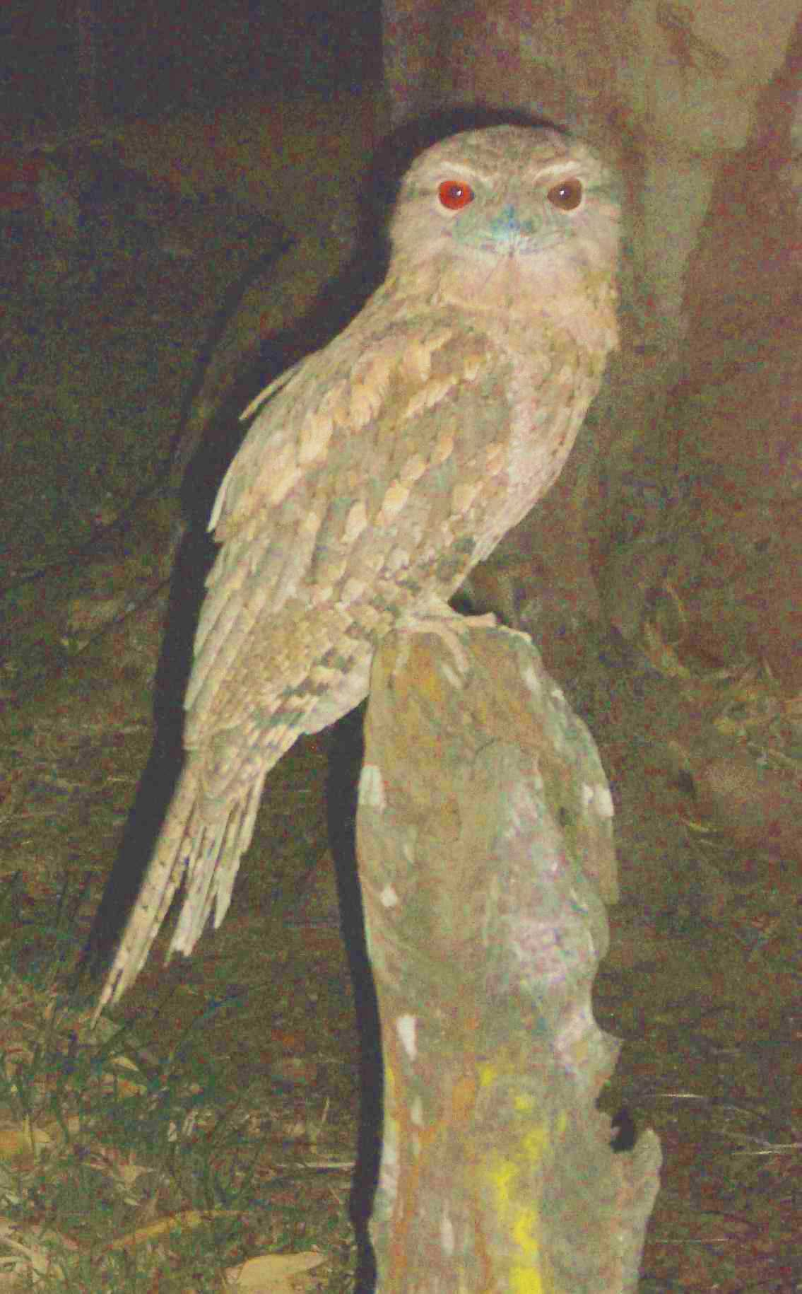 I took this photo in 2006 in our garden near Cooktown, Queensland, Australia in 2006.